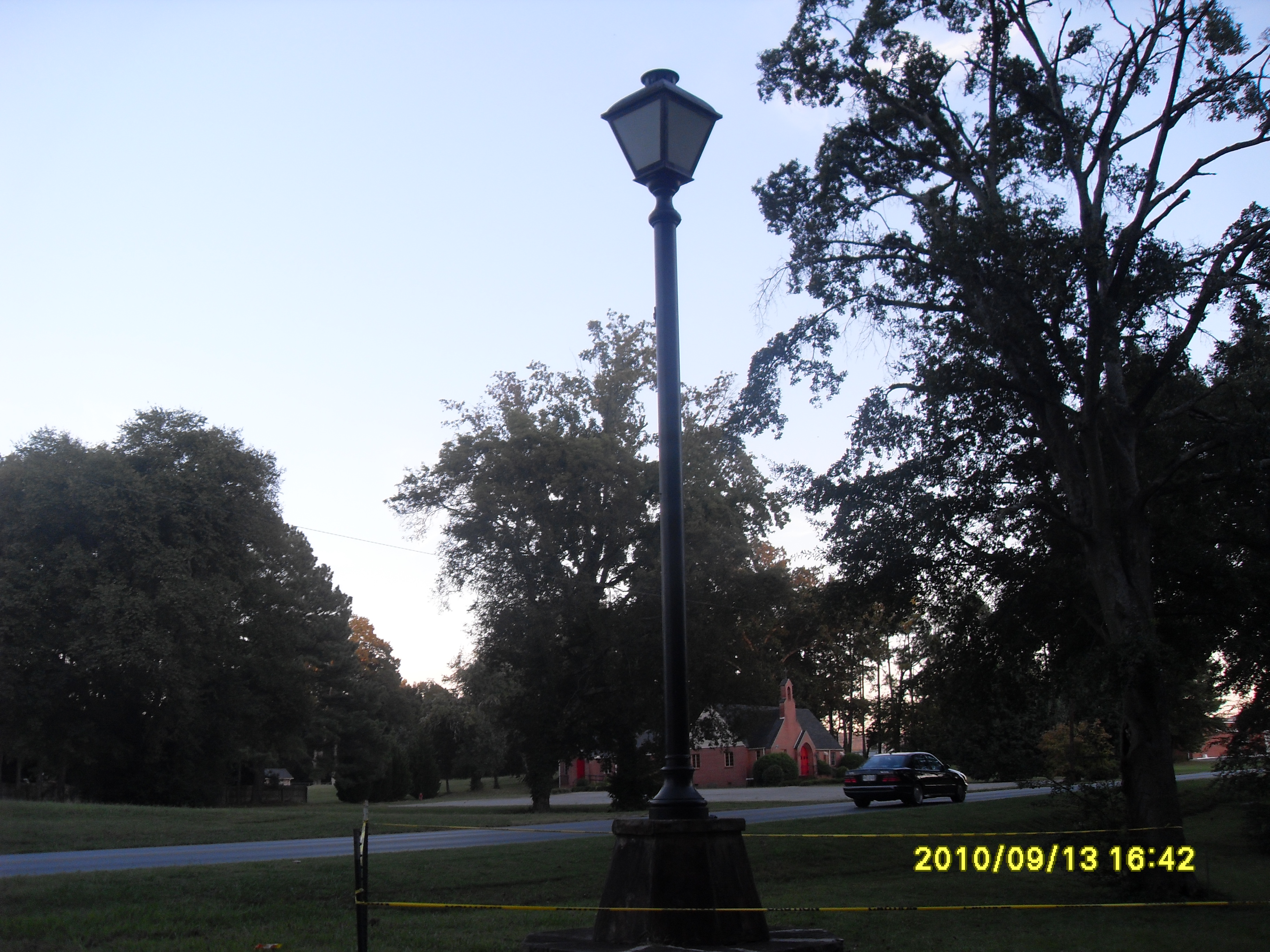 The lampost